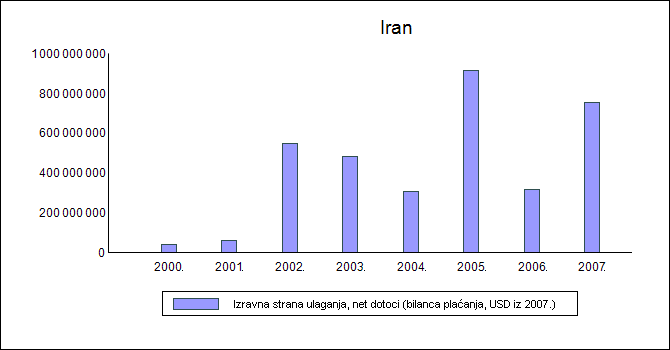 Foreign Direct Investment Flow in Iran (2000-2007)